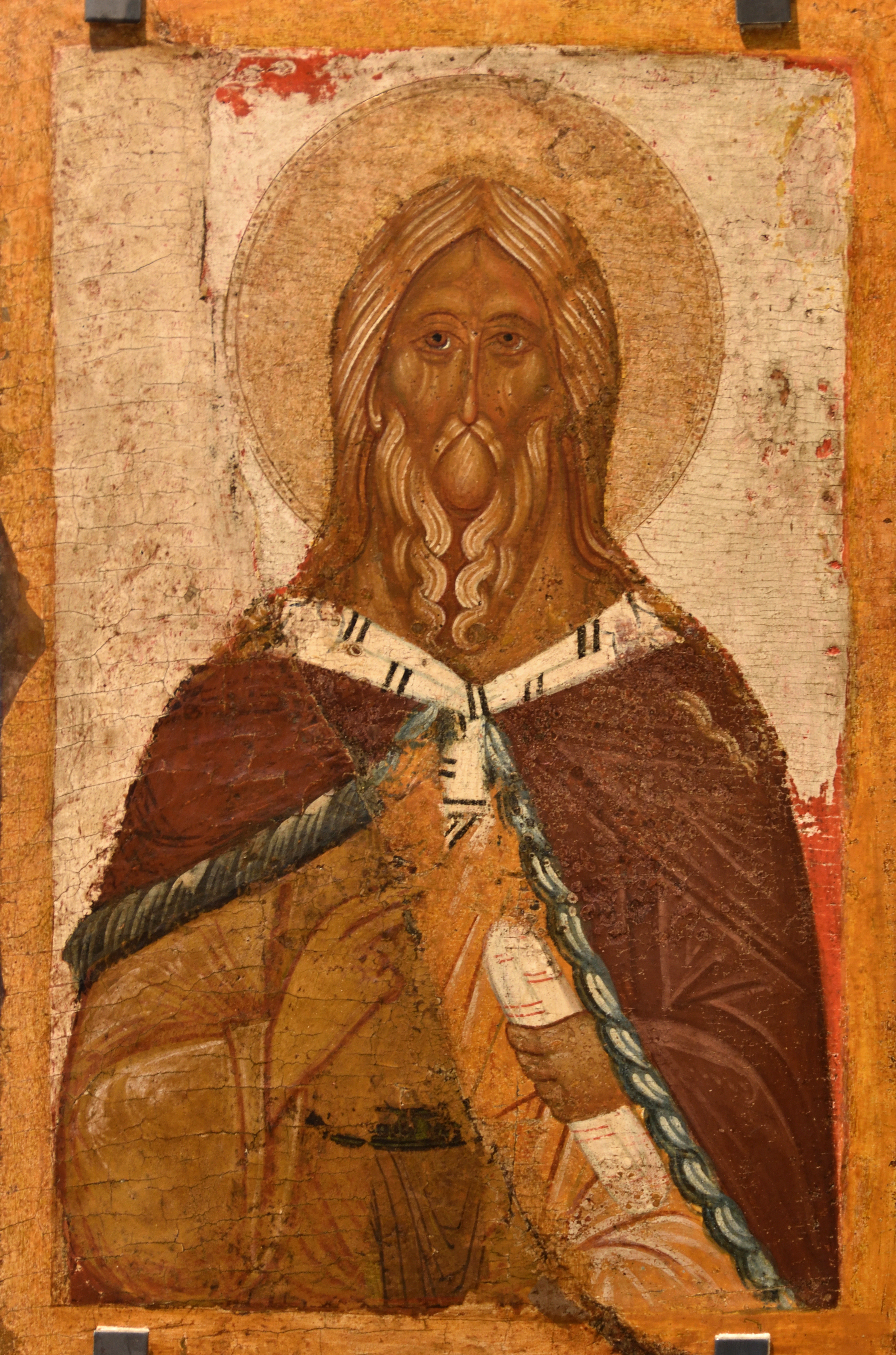 Icon of The Prophet Elijah, 1st half of XV century, Pyalma village of Pudozhsky district of the Republic of Karelia -- from the collection of the Museum of Fine Arts of the Republic of Karelia, Petrozavodsk